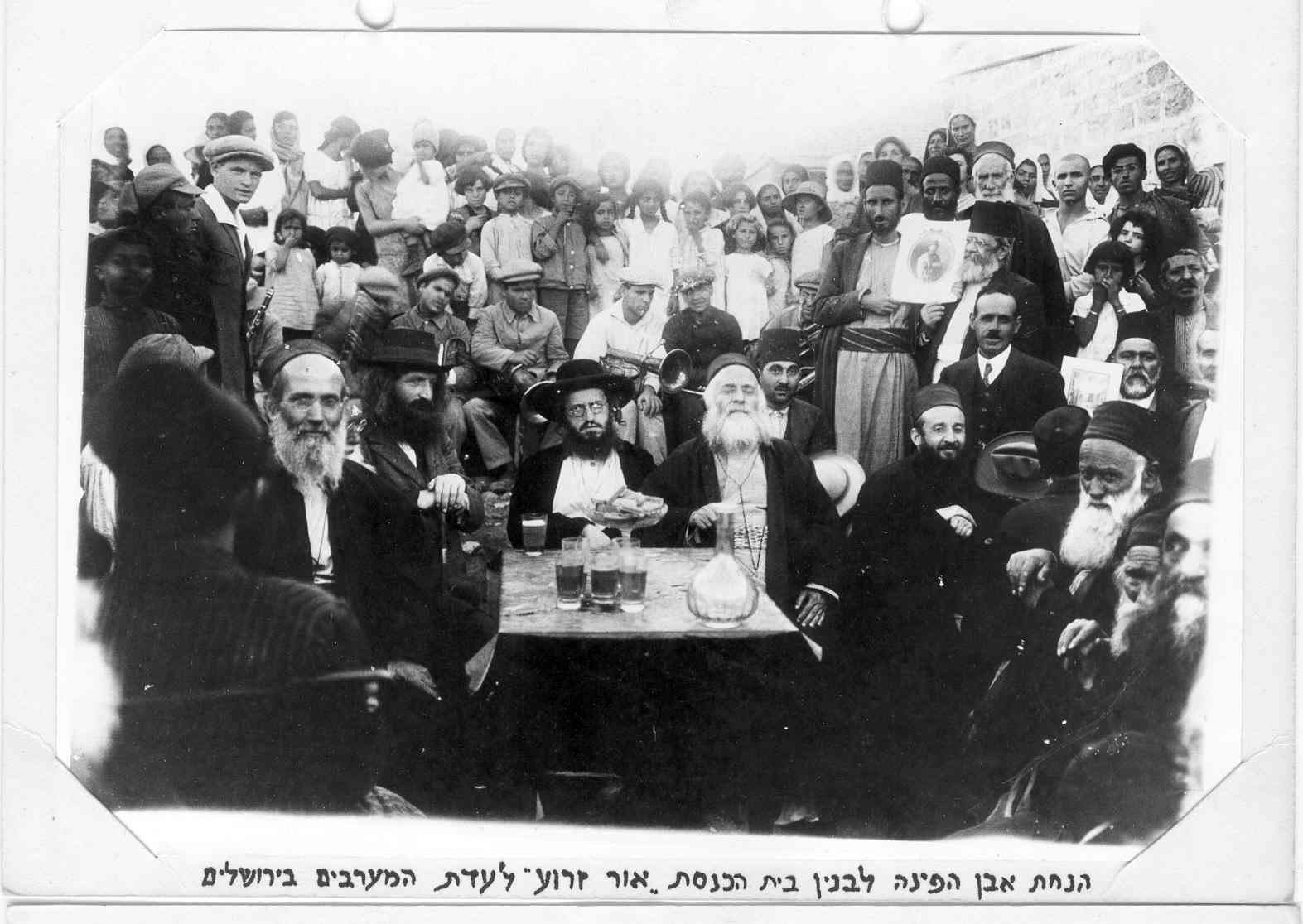 The cornerstone laying ceremony for the Or Zaruaa building founded by Rabbi Amram Aburbeh for the Ma'araviim congregation, in Nachlaot neighbourhood, Jerusalem , Israel 1926.